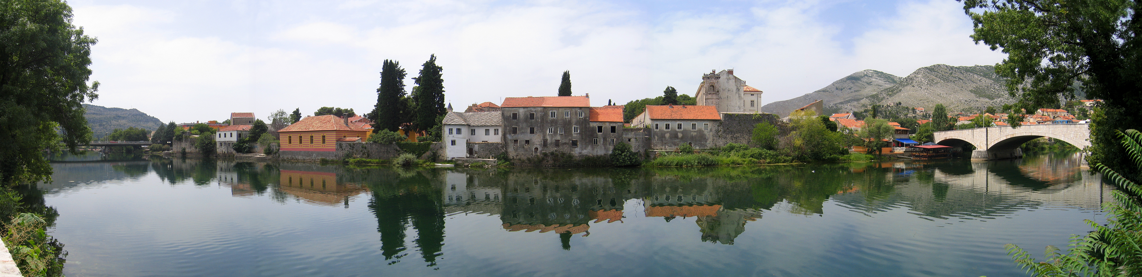 Trebinje river panorama, Herzegovina